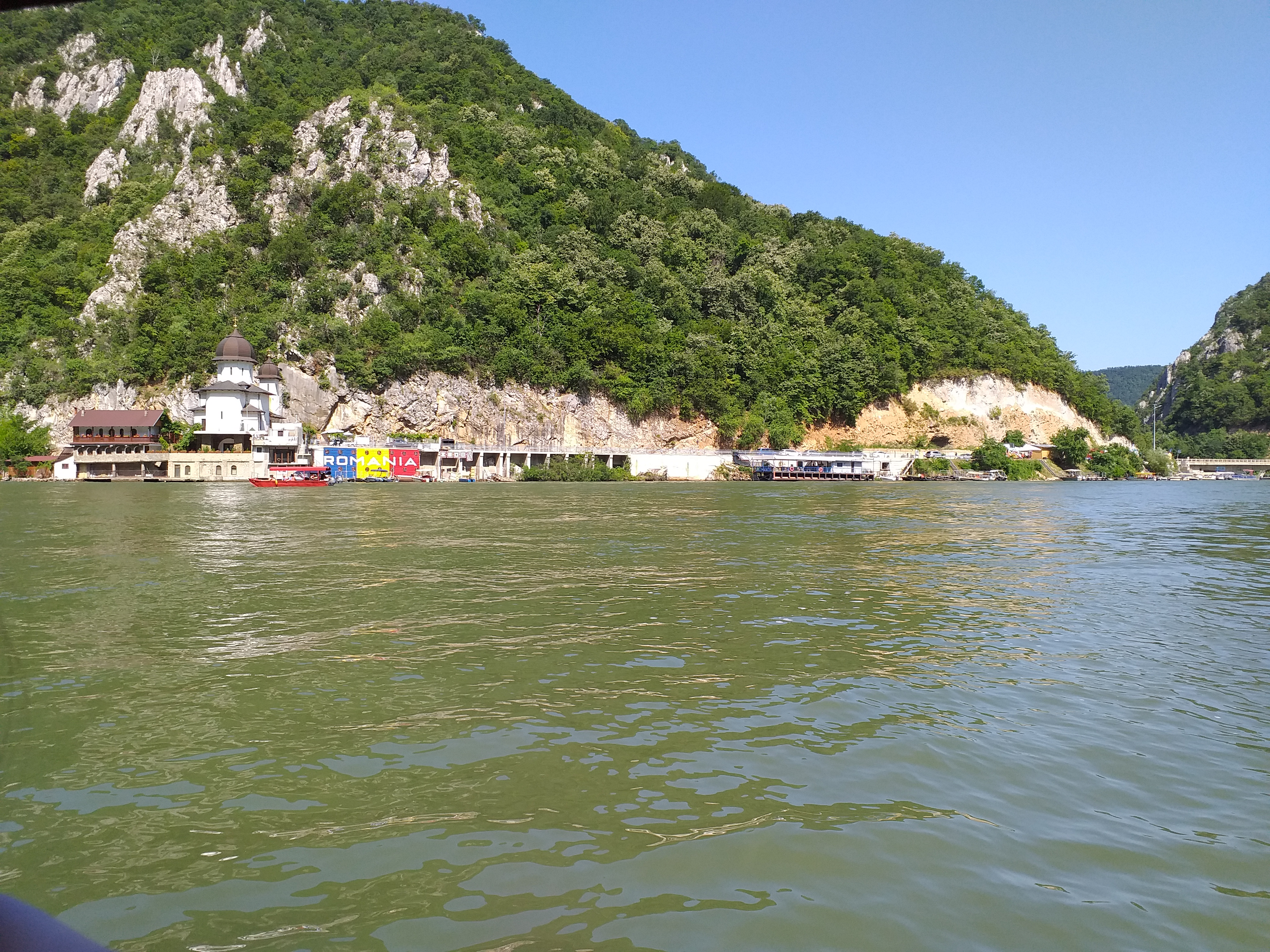 Ženski manastir Mrakonija na Dunavu u Đerdapskoj klisuri.